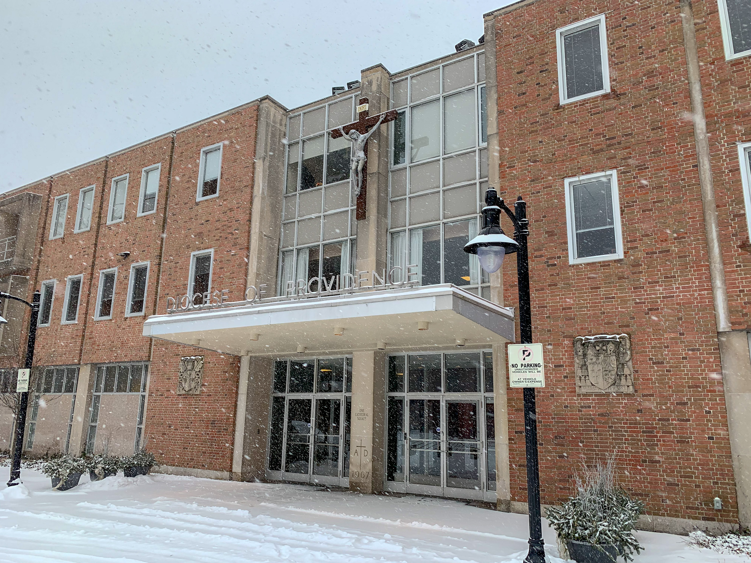 Roman Catholic Diocese of Providence at Cathedral Square, Providence RI.